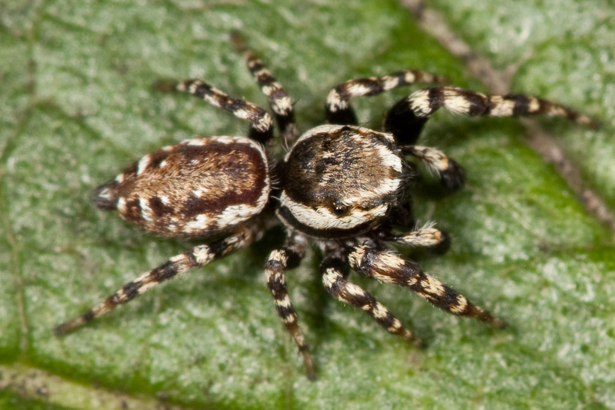 Adult male Peppered jumper (Pelegrina galathea) found at Shelby Park in Nashville, Tennessee